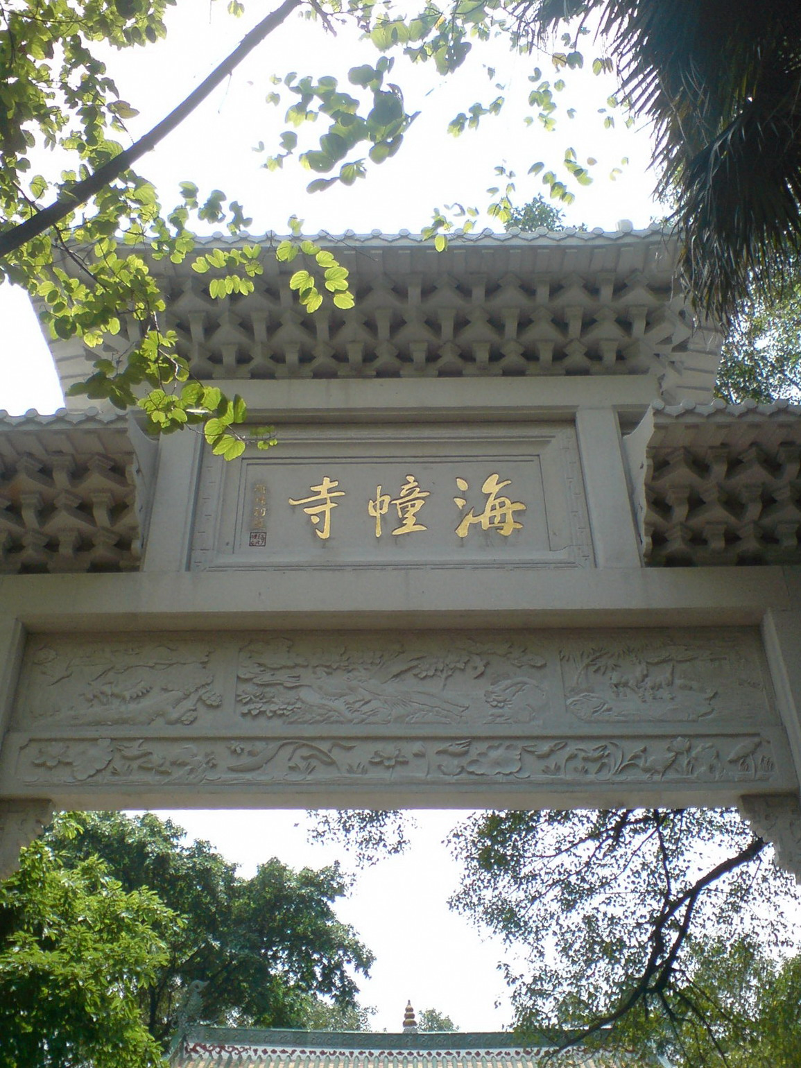 The gate of Hoi Tong Monastery on Henan Island, Guangzhou